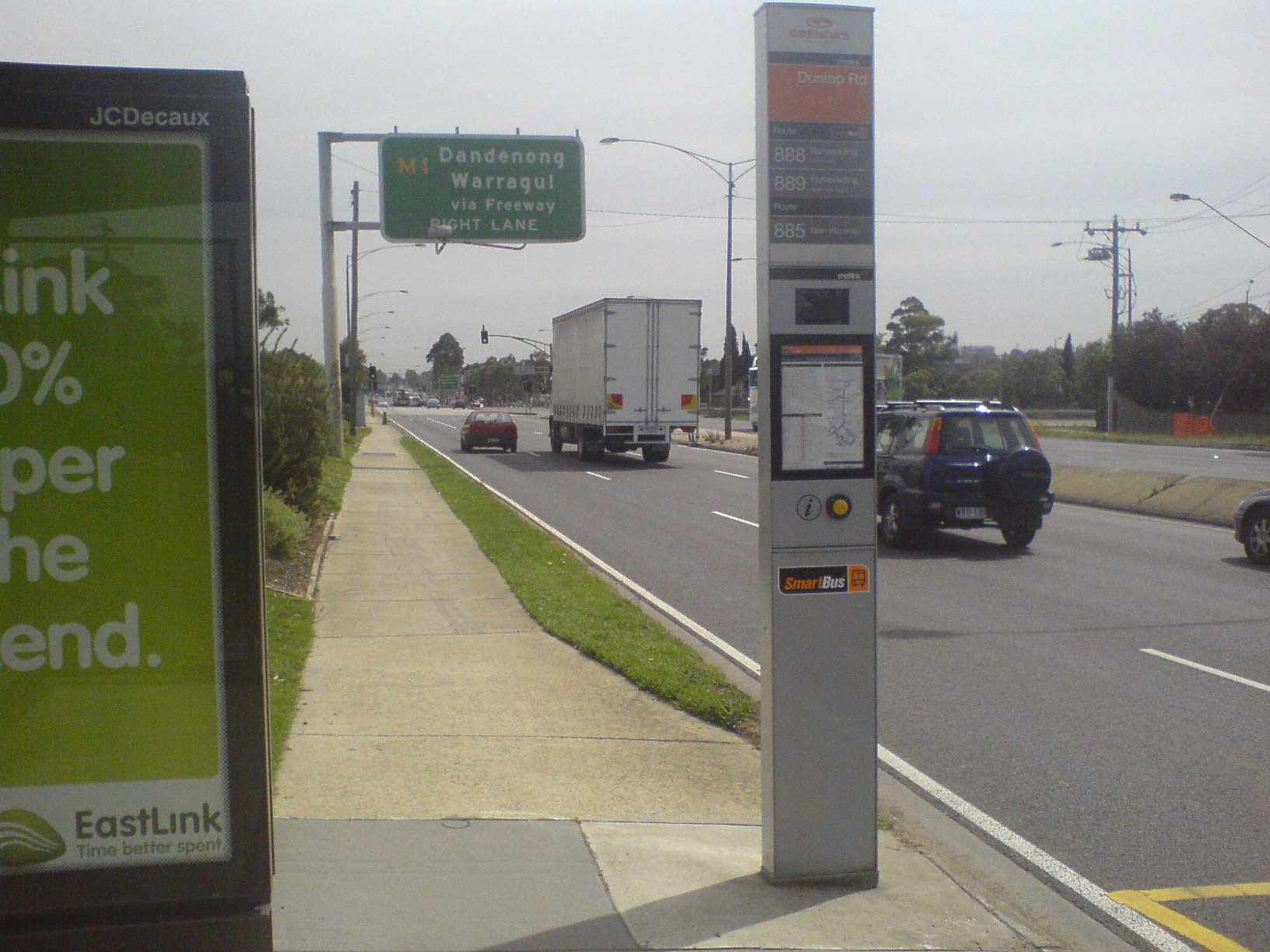 The Dunlop Road bus stop on Springvale Road. The bus stop is a stop of the 888/889 SmartBus program. The stop also services for the 885 to Glen Waverley.